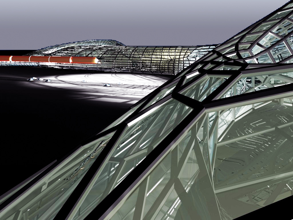 An image of POL Culture and Art Centre Project